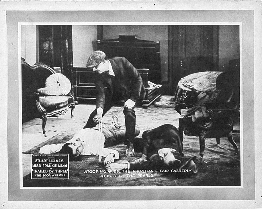 Lobby card for the American film serial Trailed by Three (1920).